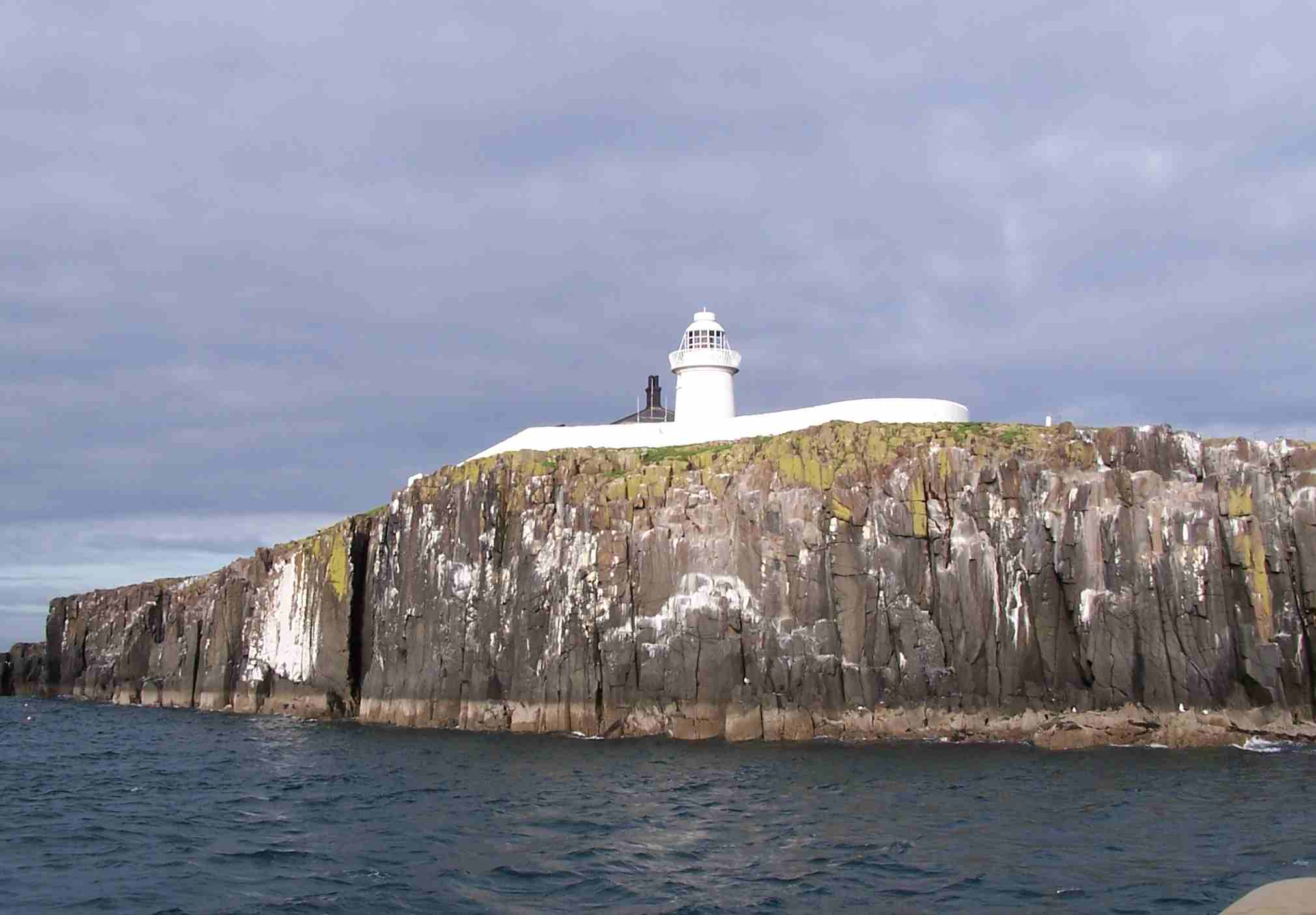 Personal picture taken by Mick Knapton in October 2006